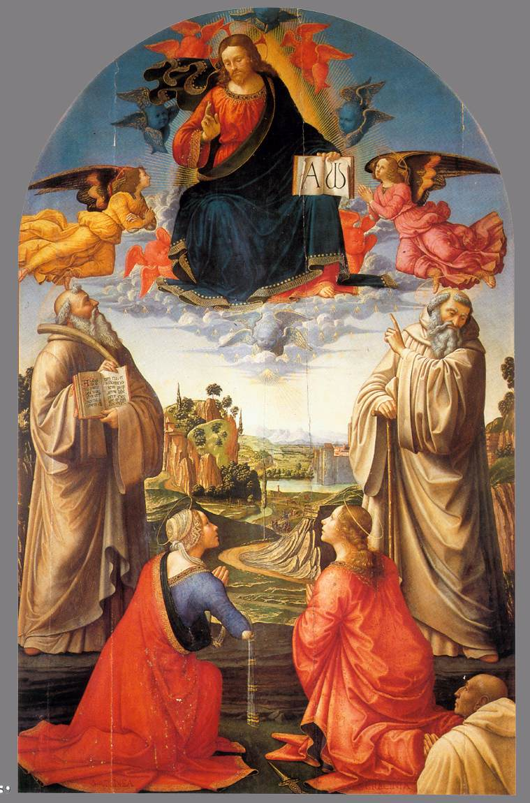 Domenico Ghirlandaio: Christ in Heaven with four Saints and a donor